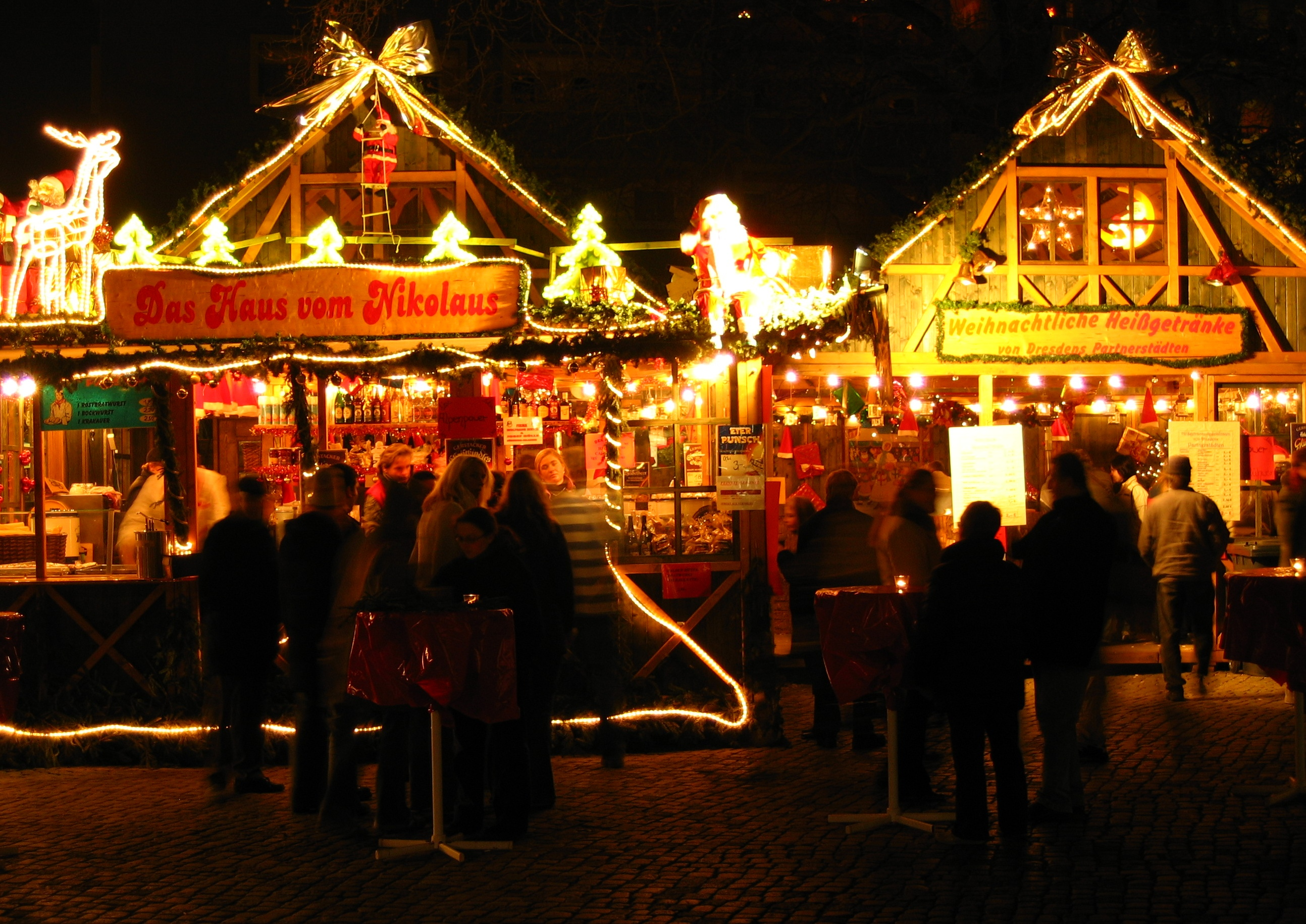 Desription: Christmas Market in Dresden (same as Wheinachtsmarkt.jpg, better file Name) License: Picture taken by me